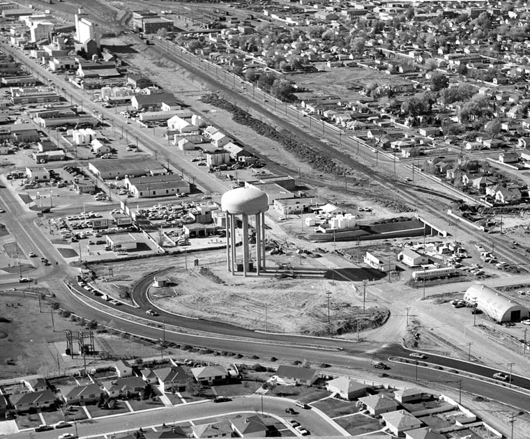 1964 24.7 cm x 21.3 cm. Black and white photograph. Aerial view taken looking west down 2nd Avenue South from Mayor Magrath Drive. Water tower in foreground and the construction of the Mayor Magrath Drive under pass is visible. Local. To obtain high quality and larger reproductions of this image please visit the Galt Museum & Archives website: and include thIs number in your request: P19760236090